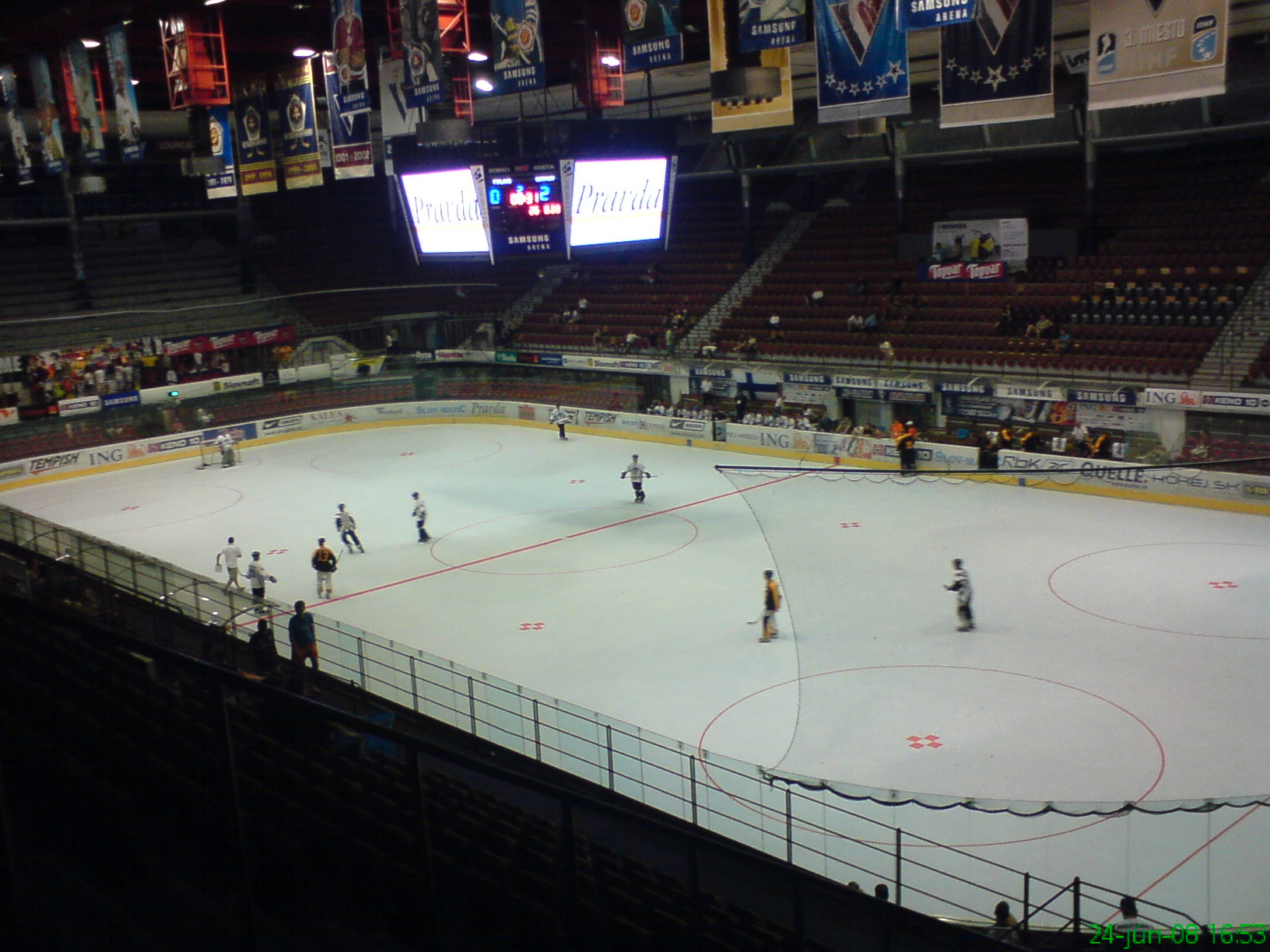 Interior of Samsung Arena during the IIHF Inline hockey World Championship